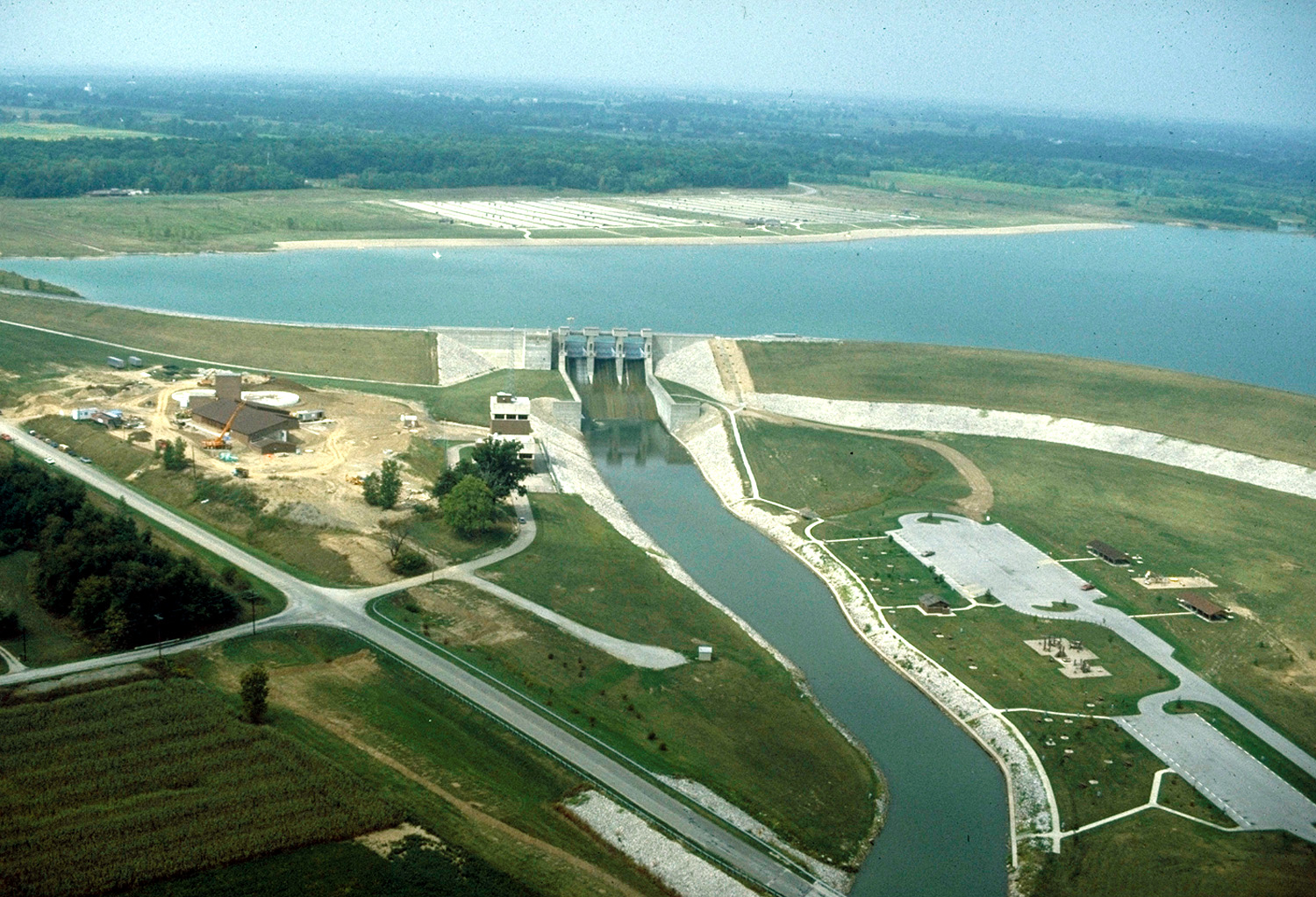 Alum Creek Dam near Columbus, Ohio, USA. The dam was constructed in 1974 by the U.S. Army Corps of Engineers for flood control and water supply for the Columbus area. The view is to the northwest.